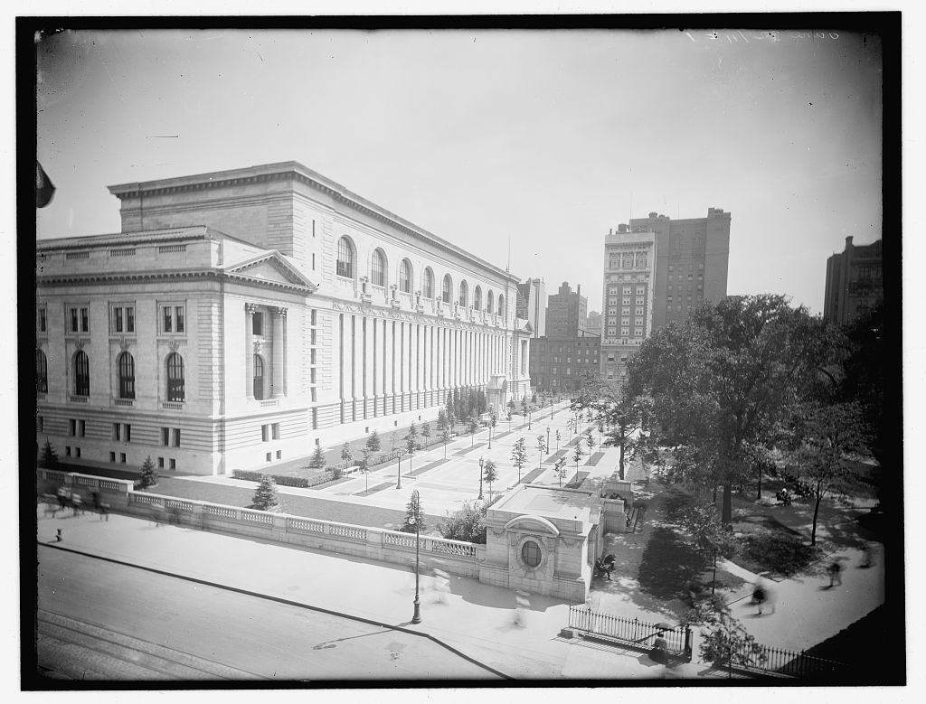 New York Public Library